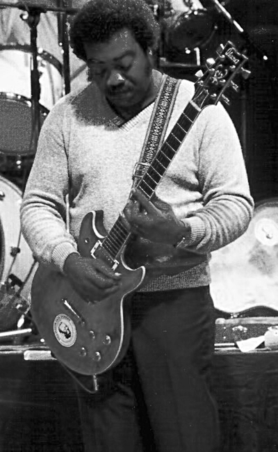 American blues guitarist and singer Joe "Guitar" Hughes in France